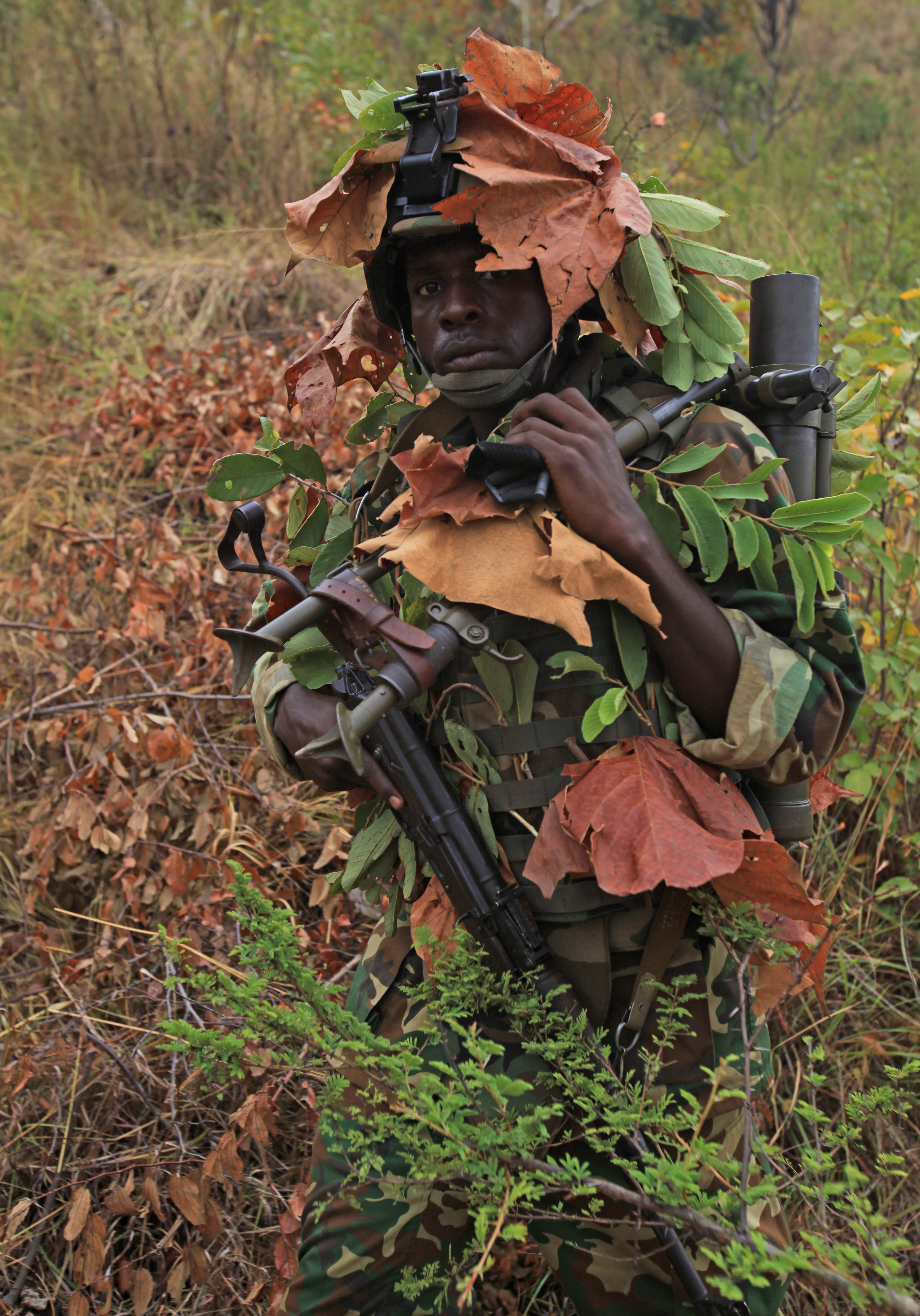 A mortar man with 1st Sapper Company, Burundi National Defense Force makes his way to a firing position during a combined arms breaching exercise, June 26, 2012. Marines and sailors from Special-Purpose Marine Air-Ground Task Force Africa, Security Cooperation Team-2 have been in Burundi training with the 1st Sapper Company in combined arms breaching techniques to prepare the unit for deployment in support of the African Union Mission in Somalia. Special Purpose Marine Air Ground Task Force 12 Photo by 1st Lt. Dominic Pitrone Date Taken:06.26.2012 Location:BUJUMBURA, BI Read more